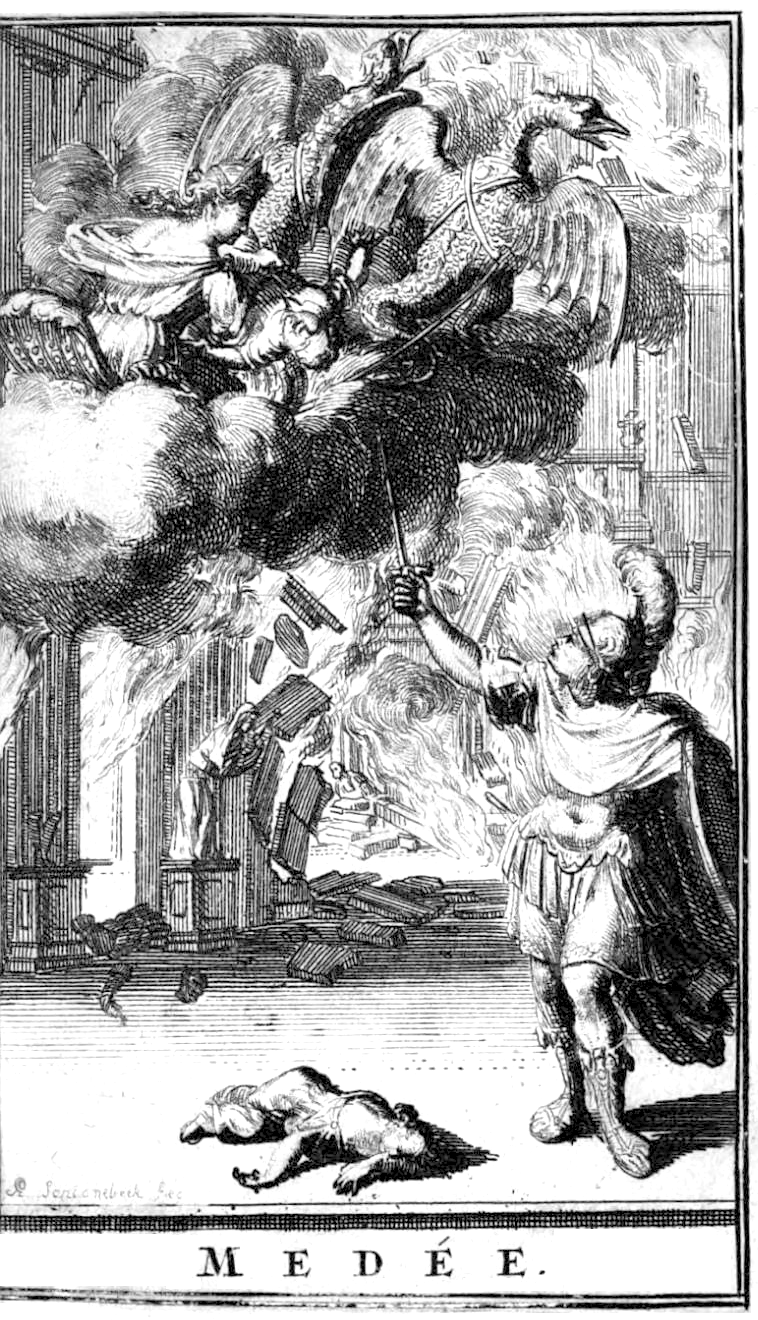 Marc-Antoine Charpentier - Médée - picture from the libretto - Amsterdam 1695